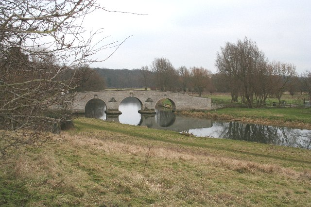 The Ferry Bridge, Peterborough.